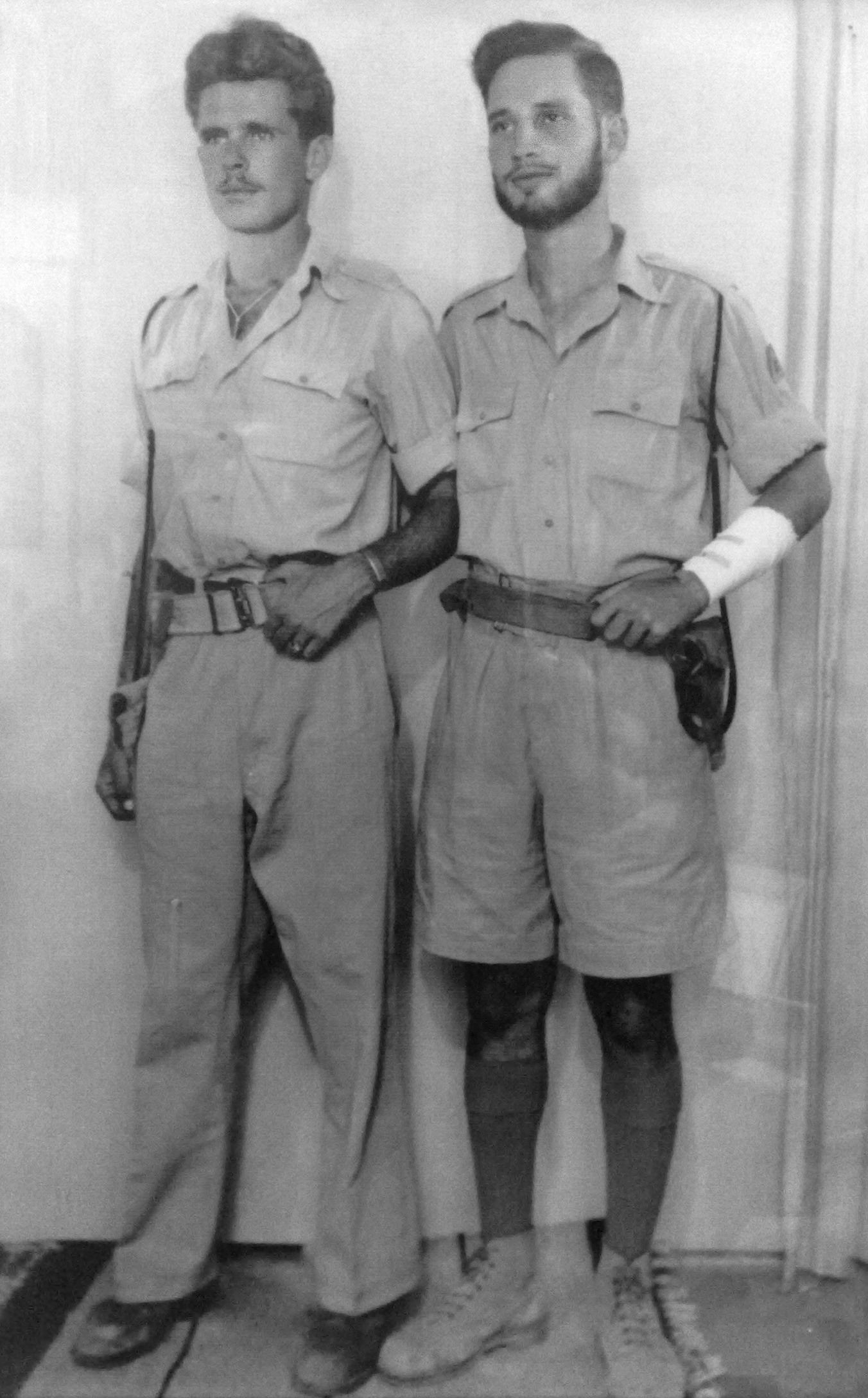 Yehuda Gavish and Friend in brigade uniform. 1948.